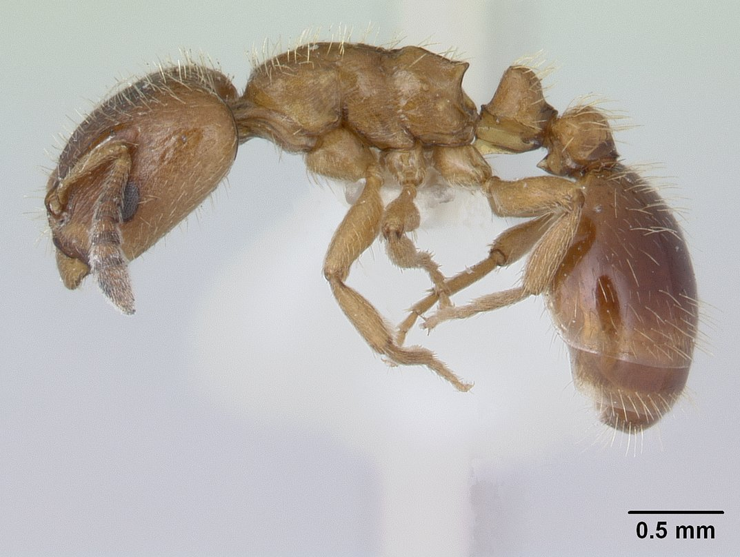 Profile view of ant Harpagoxenus sublaevis specimen casent0178588.